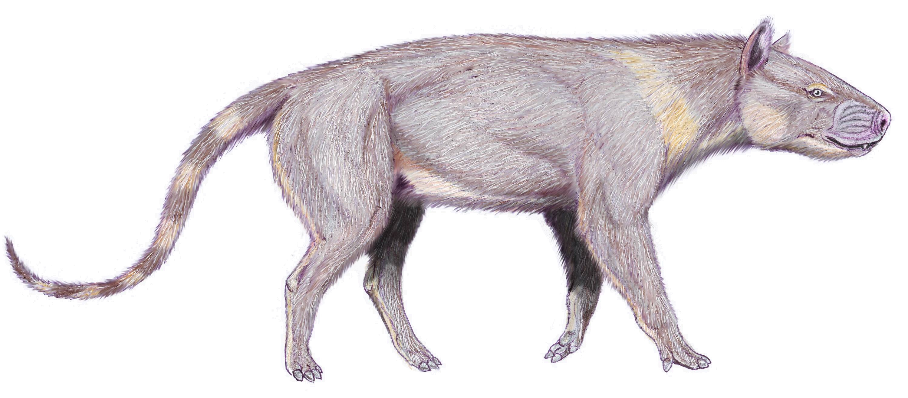 Synoplotherium vorax - mesonychid from Middle Eocene on Wyoming.